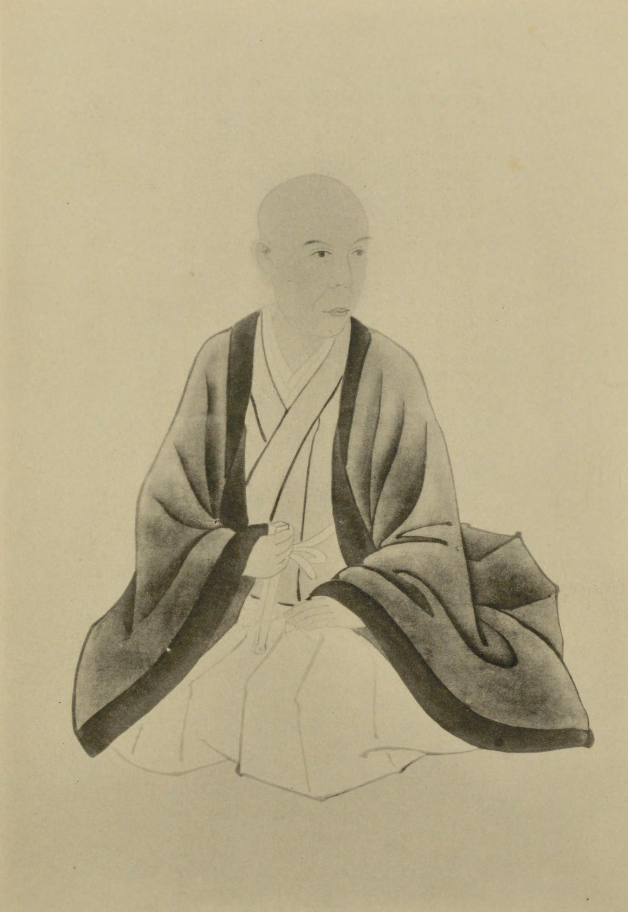 Portrait of Sugita Seikei